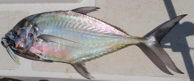 Taken from Darwin harbour